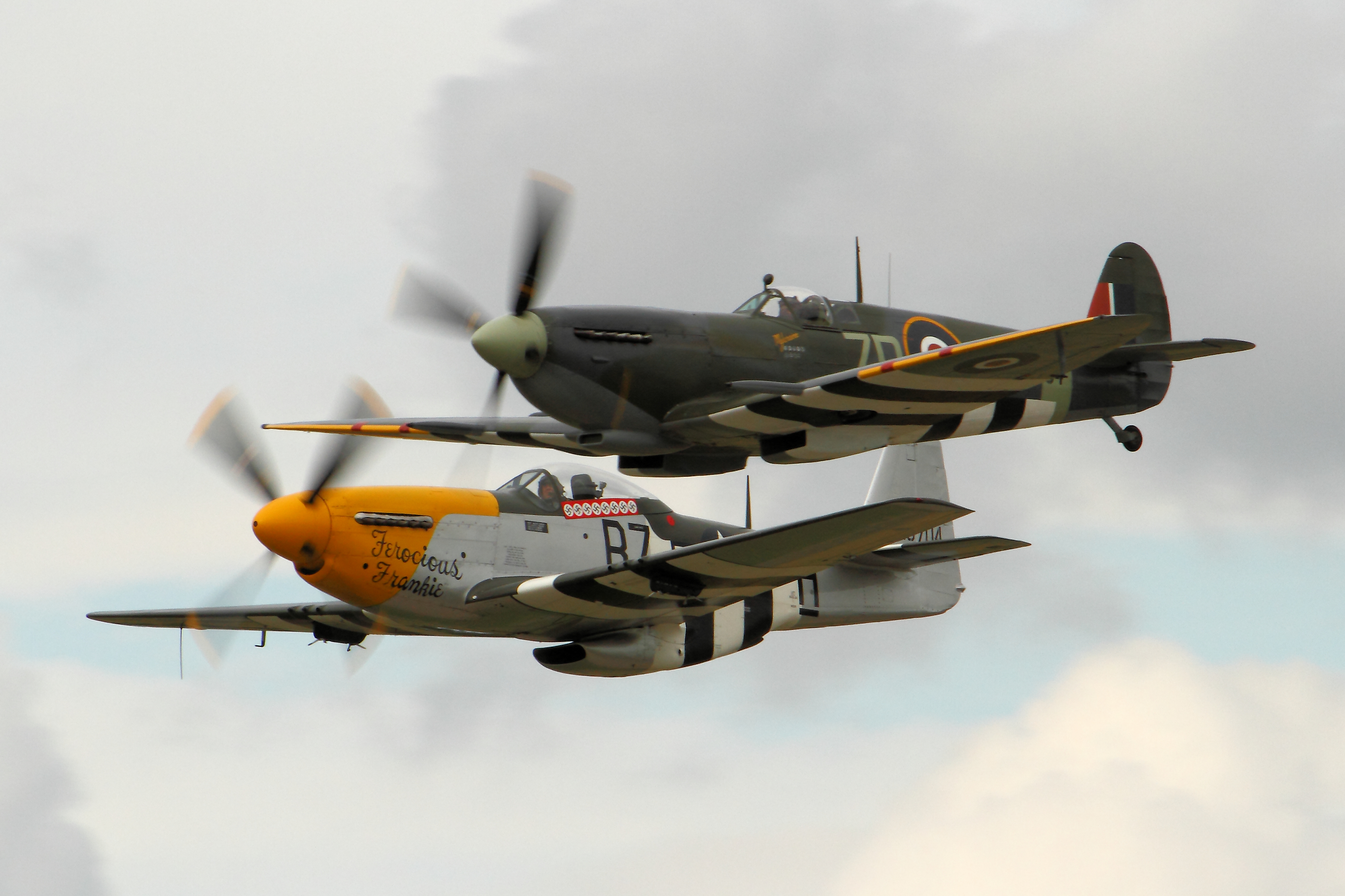 Dunsfold Wings and Wheels 2014 Spitfire